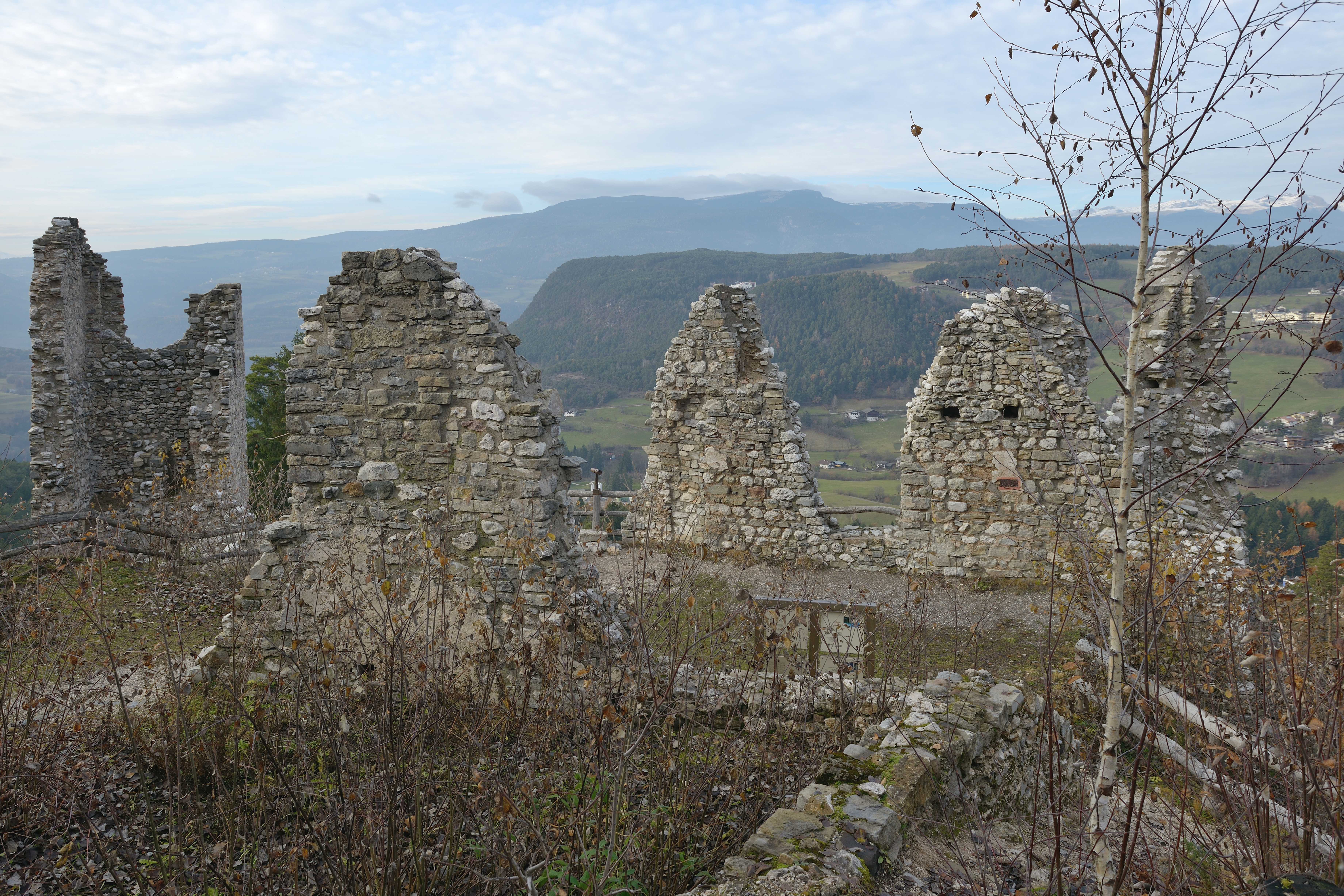 Castel ruin Salegg in St. Oswald Kastelruth